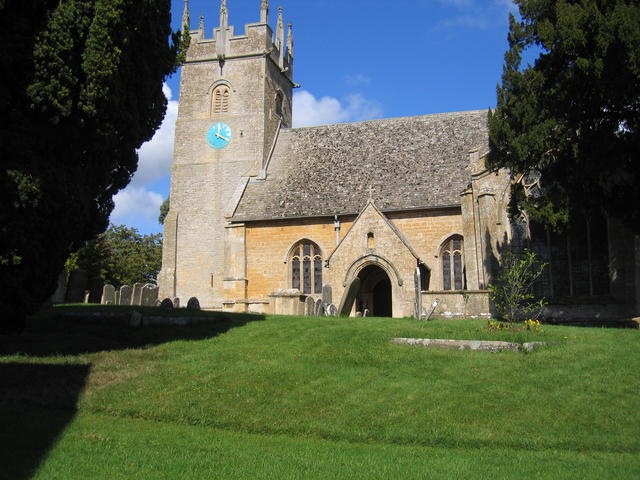 St James's Church, Longborough. An interesting Cotswold village church. It has an unusual north trancept known as the Sezincote Chapel, which is built on a higher level and distinctly separated from the rest of the church. This contains monuments to the Cockerell / Rushout family who lived in the nearby Sezincote House.